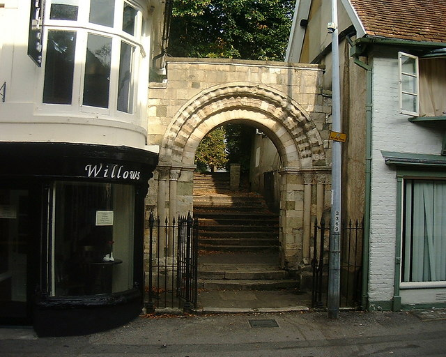 Andover - Norman Arch This is all that remains of the first St Mary's Church which was demolished in 1840. The original Norman church was said to be unsafe and needed replacing, however it took explosives to demolish it as it was not in such bad condition after all. The arch dates from around 1150AD and was placed in its current location in 1845 five years after the original church was demolished.